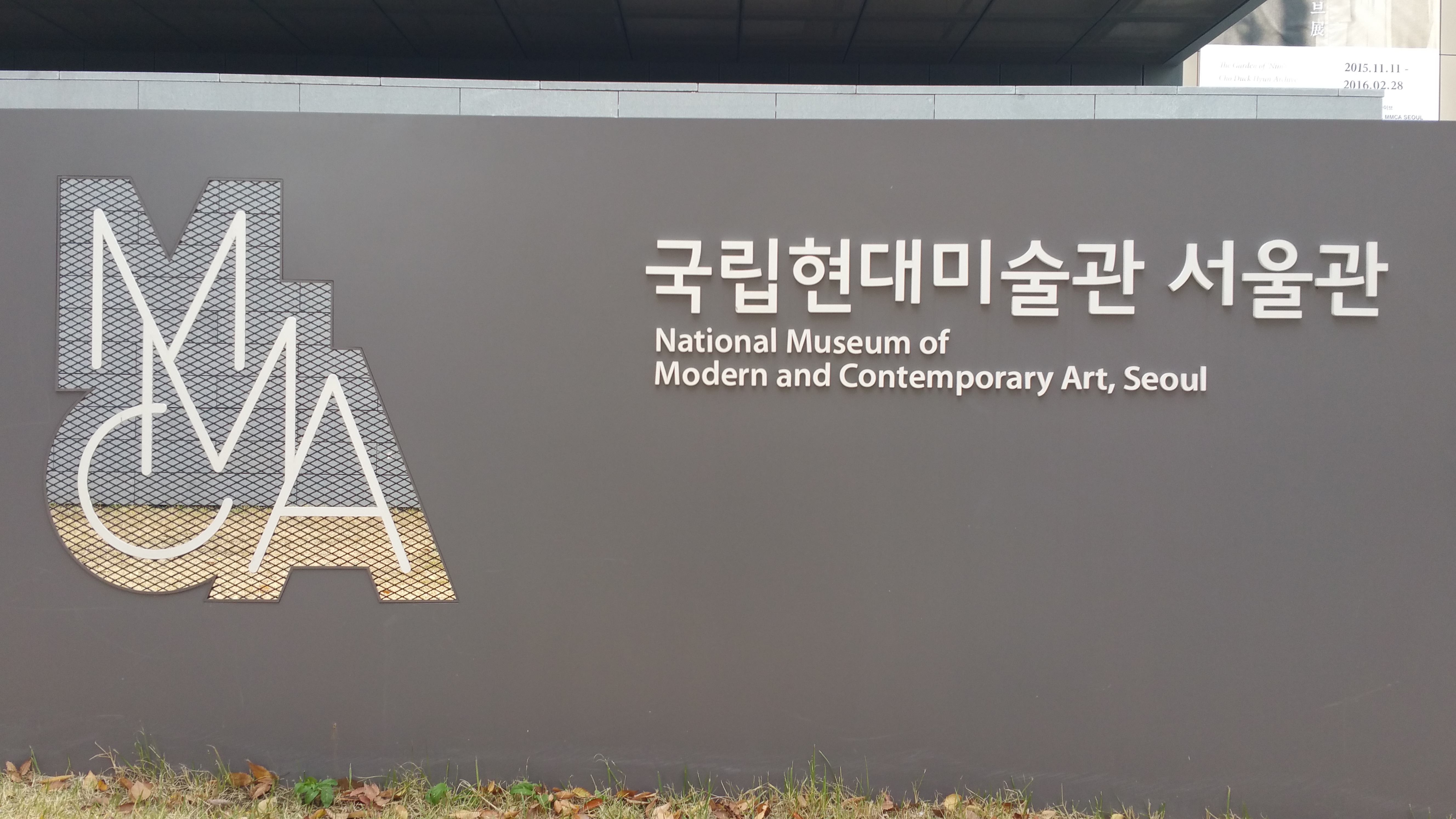 National Museum of Modern and Contemporary Art, Seoul branch, front name sign.